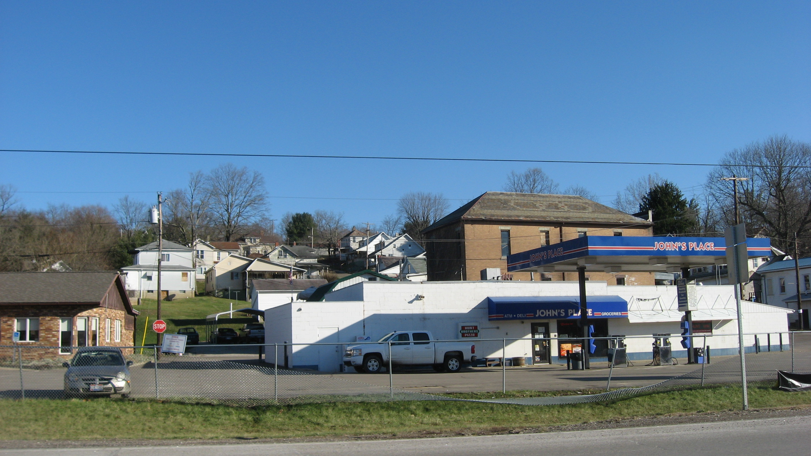 Looking eastward from State Route 13 toward houses and businesses in Corning, Ohio, United States.